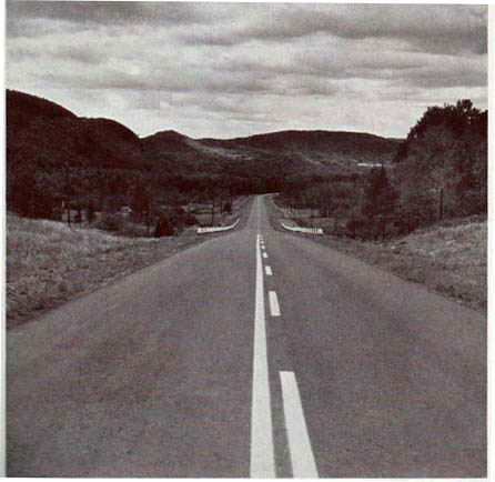 Ontario Highway 61, 10 km north of the Pigeon River Bridge